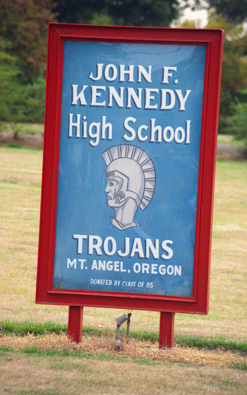 John F. Kennedy High School, Mount Angel, Oregon, USA